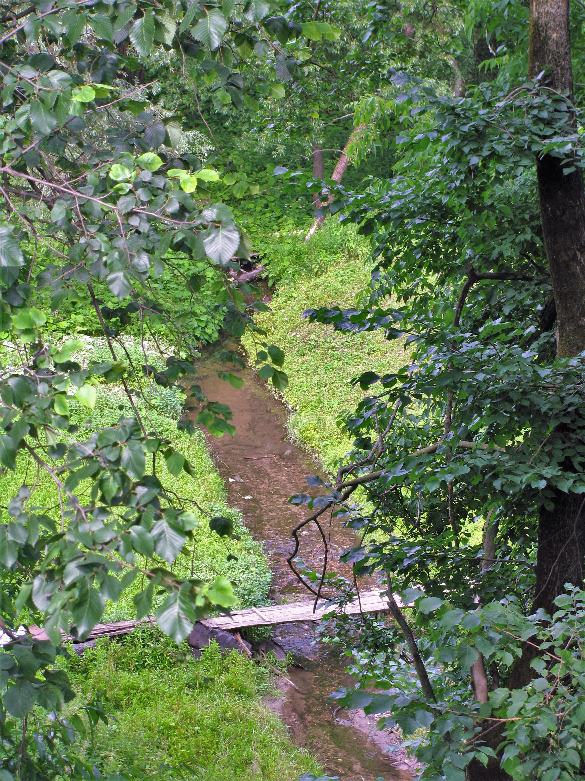 Serpukhov, Serpeyka river